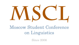 The official logo of Moscow Student Conference on Linguistics approved in 2009